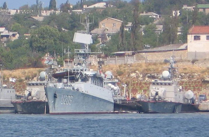 Ukrainian project 206MR "Vikhr'" missile boats U153 Pryluky (ex-Soviet R-262) and U154 Kakhovka (ex-R-265), and project 1124M "Al'batros" anti-submarine corvette U209 Ternopil' in Sevastopol.